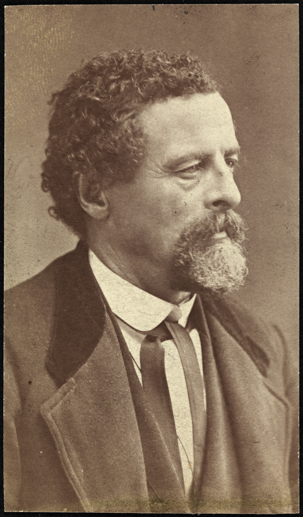 Tittel / Title: Portrett av Marcus Thrane (1817-1890) Dato / Date: ukjent / unknown Fotograf / Photographer: ukjent / unknown Eier / Owner Institution: Nasjonalbiblioteket / National Library of Norway Lenke / Link: Bildesignatur / Image Number: blds_05740